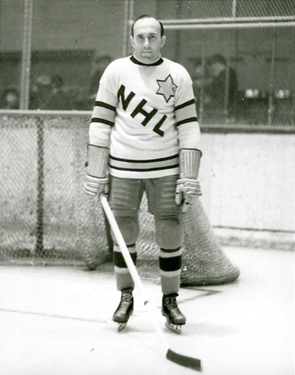 Howie Morenz, centre of the Montreal Canadiens of the and NHL from 1923 to 1934 and again from 1936 to 1937. Photo circa 1936-37. He is pictured at the first NHL All-Star Game, held February 14, 1934 to raise money for Ace Bailey, who had been injured in December, 1933.